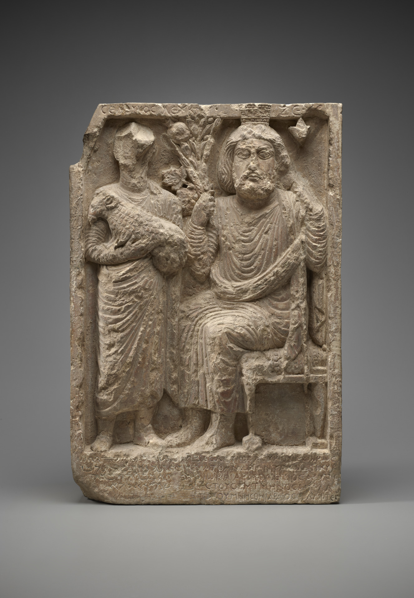 Cult relief of Zeus Kyrios-Baalshamin; Yale University Art Gallery, 1935.45